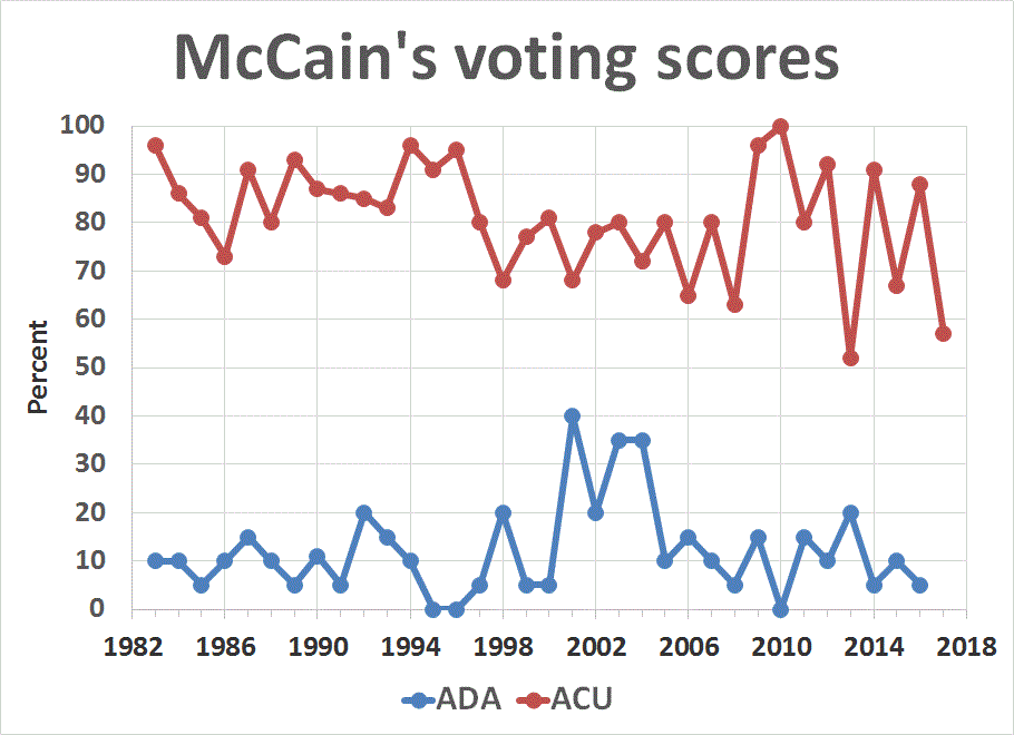 John McCain's voting scores from the American Conservative Union and Americans for Democratic Action